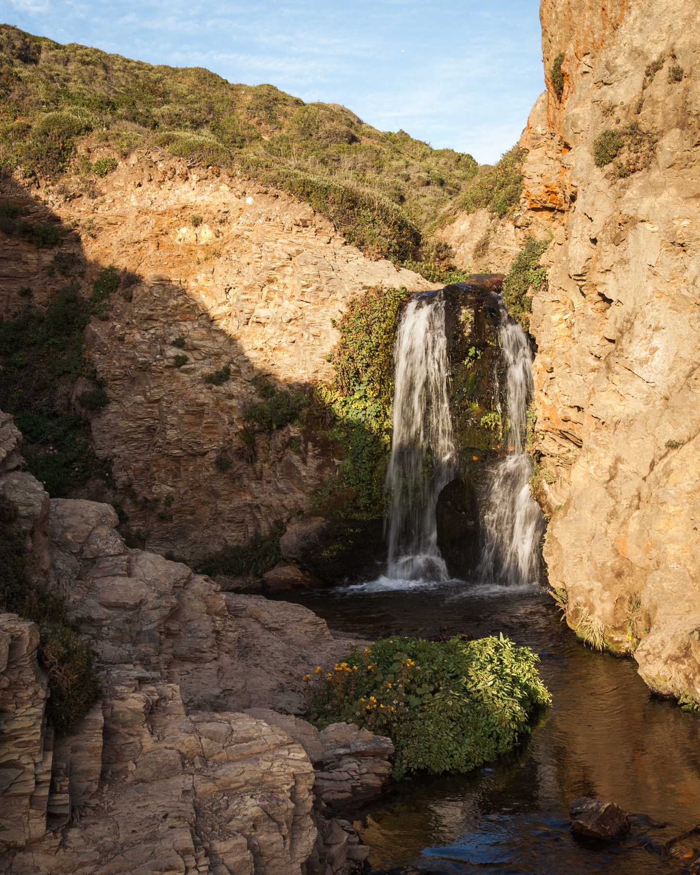 The uppermost falls of Alamere Falls — in Point Reyes National Seashore, west Marin County, California.